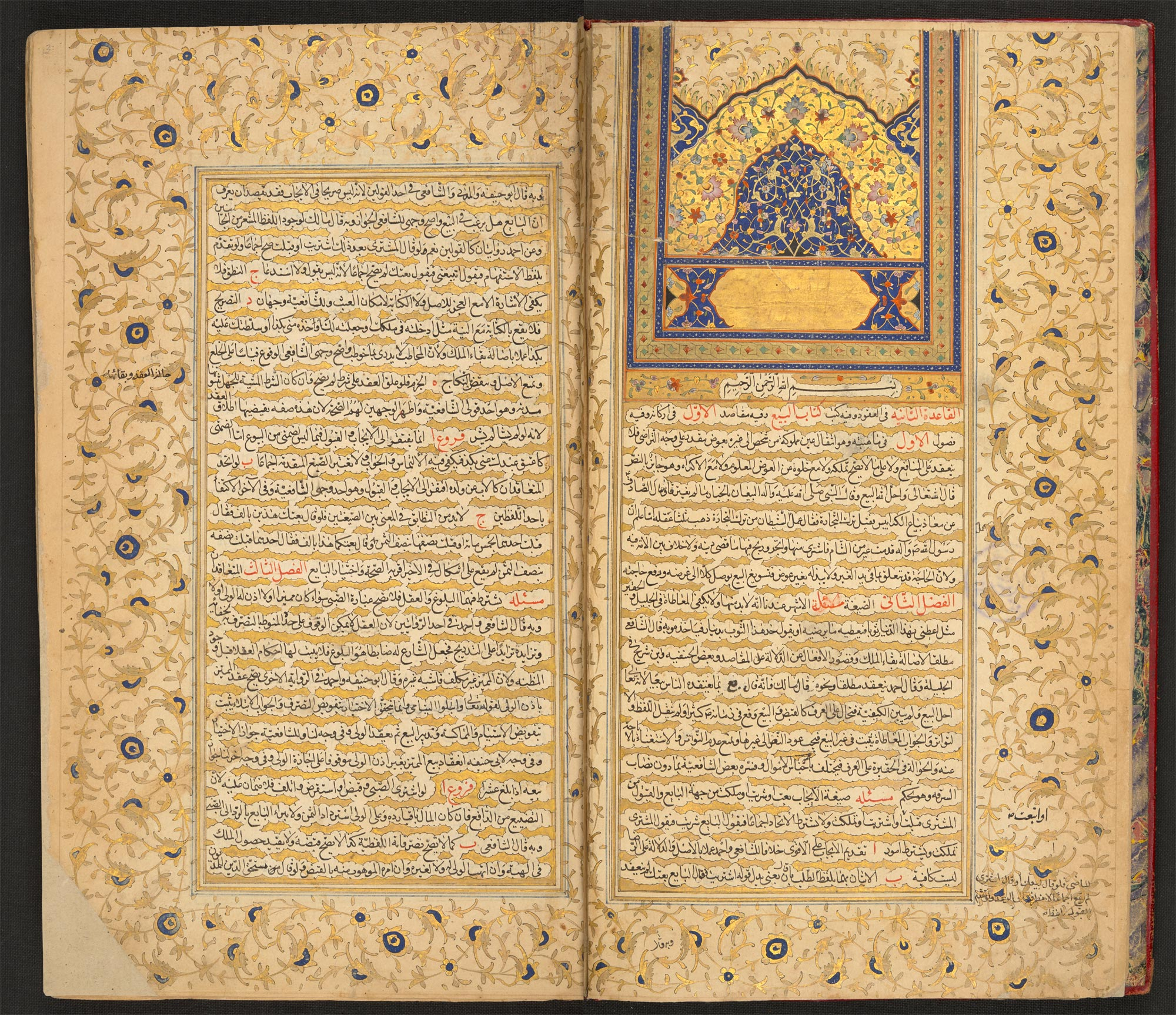 نسخه اي از تذکرة الفقهاء علامه حلي Shi‘ite fatwas, Persia, late 17th century BL Or. MS 13890, ff. 2v–3 This manuscript was copied by the scribe Qasim ibn Husayn Shirazi. The opening double page has an illuminated floral headpiece in the style of the Safavid period in Iran (1501-1732), with colours predominantly in gold, blue and pink. The wide margins are illuminated with bold floral and arabesque decorations in gold and blue, and the text is within gold cloud bands.